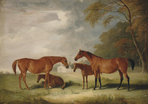 Filigree and her Daughter Cobweb, with Foals in a Landscape by John Ferneley 1782-1860. Painter dead for 152 years.